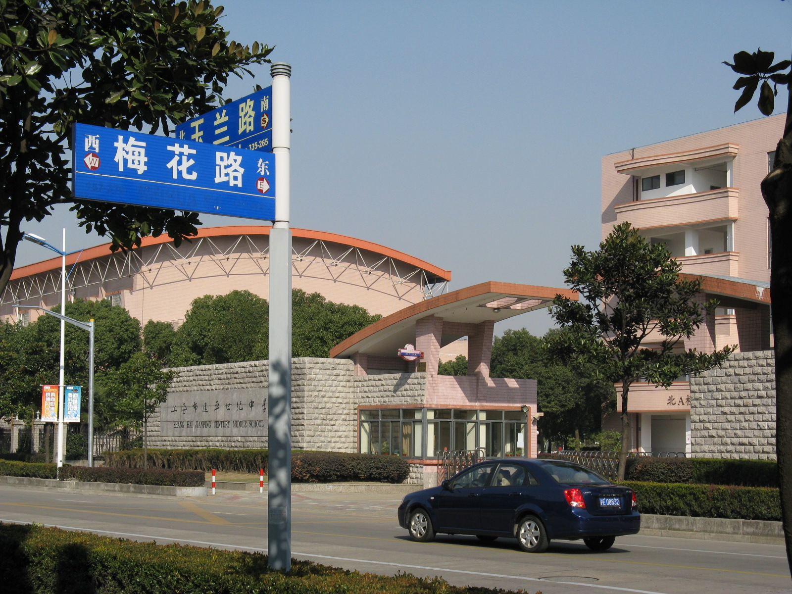 Yulan Road,Shanghai,China